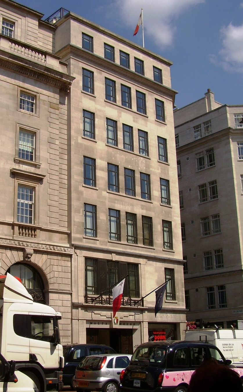 Malta High Commission in London Picture by User:Barney Jenkins